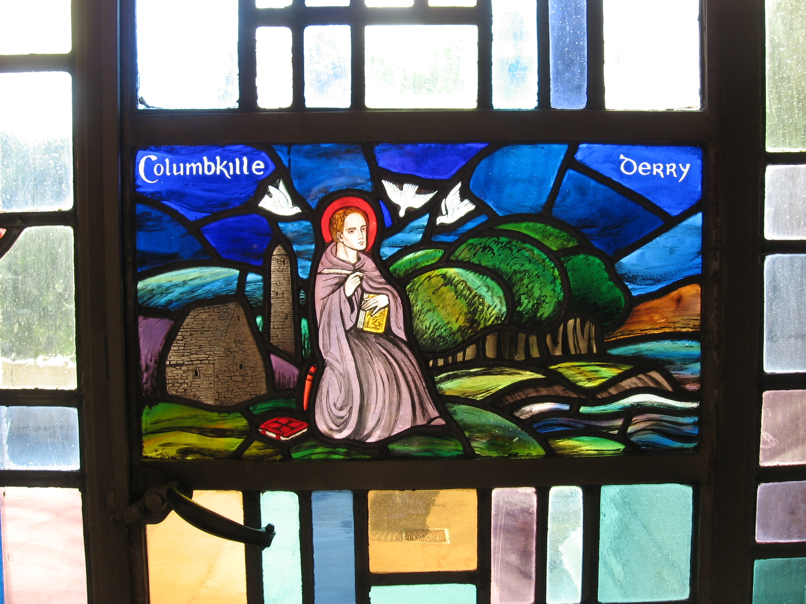 Detail of stained glass featuring Columbkille in the Irish Nationality Room of the Nationality Rooms at the University of Pittsburgh's Cathedral of Learning. Manufactured by the Harry Clarke Studios in Dublin in 1956/57.